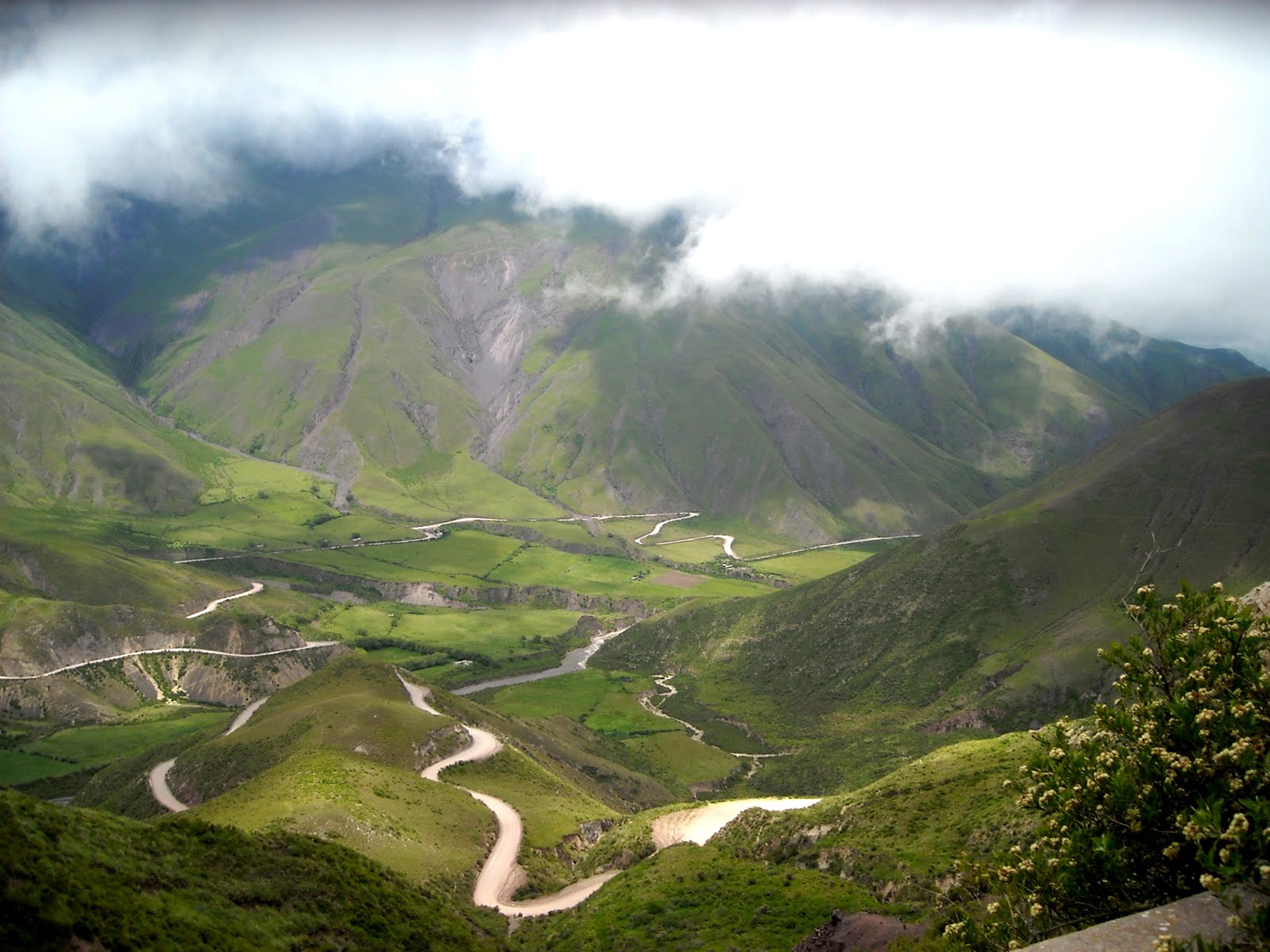 Cuesta del Obispo en la Provincia de Salta - Argentina